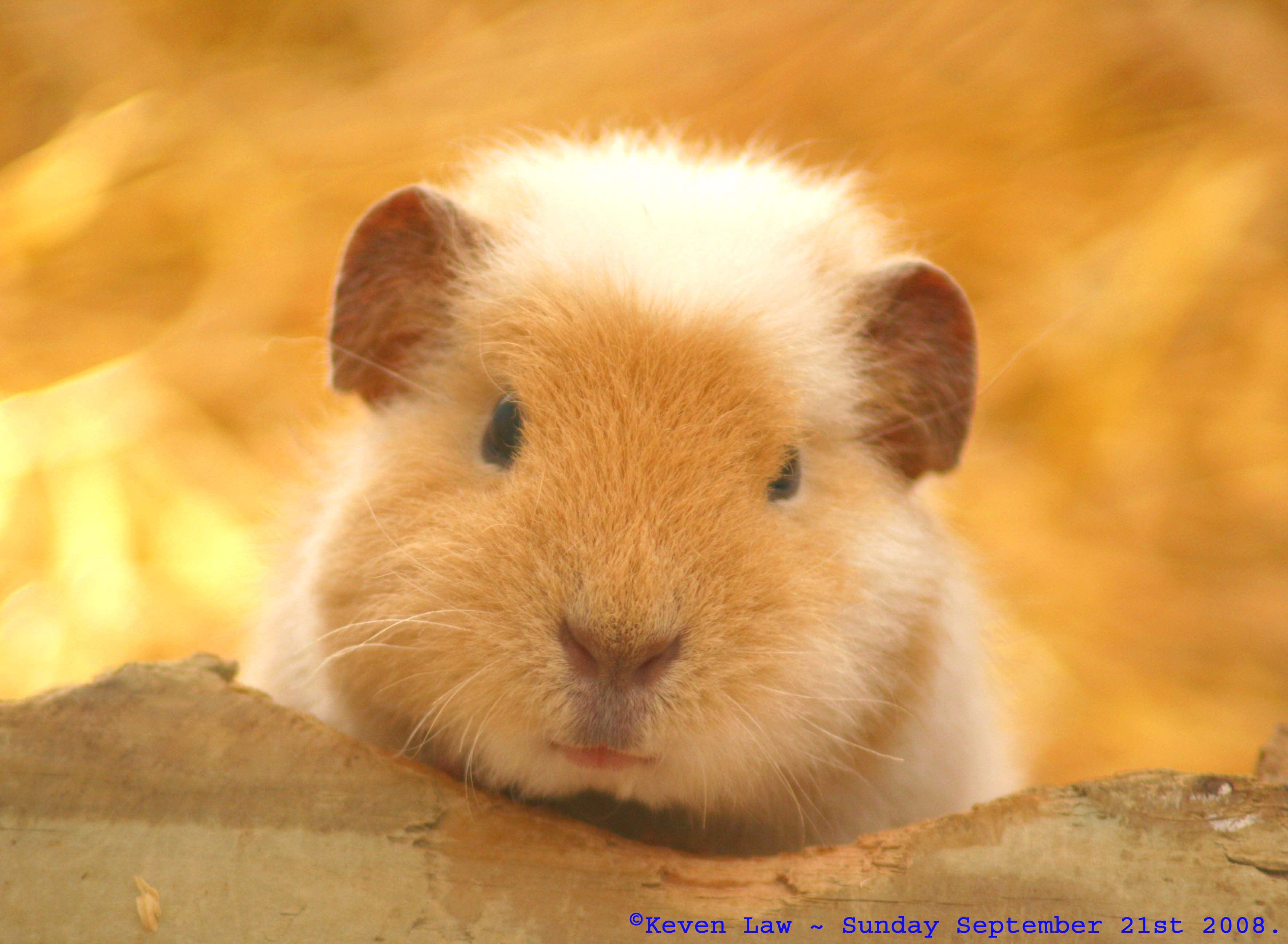 Guinea Pig - Wingham Wildlife Park, Kent, England - Sunday September 21st 2008. Click here to see the Larger image Click here to see My most interesting images Yup....for those old like me lol....this is GP the Guinea pig...from the 70's TV show "Tales of the Riverbank"..GP the Guinea Pig: boastful and creative, he is the Riverbank's resident inventor. His creations have included a winchamabob and a recyclamobile. He lived in a wooden house with a prominent water wheel at the front. He had a small plane which he flew in several episodes. Oh to be a small person again..lol...Now I just need to find Hammy the Hamster..:O))) I hope your all having an awesome day..:O))